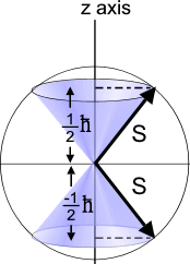 Diagram showing the possible spin angular momentum values for 1/2 spin particles (for example, electrons)